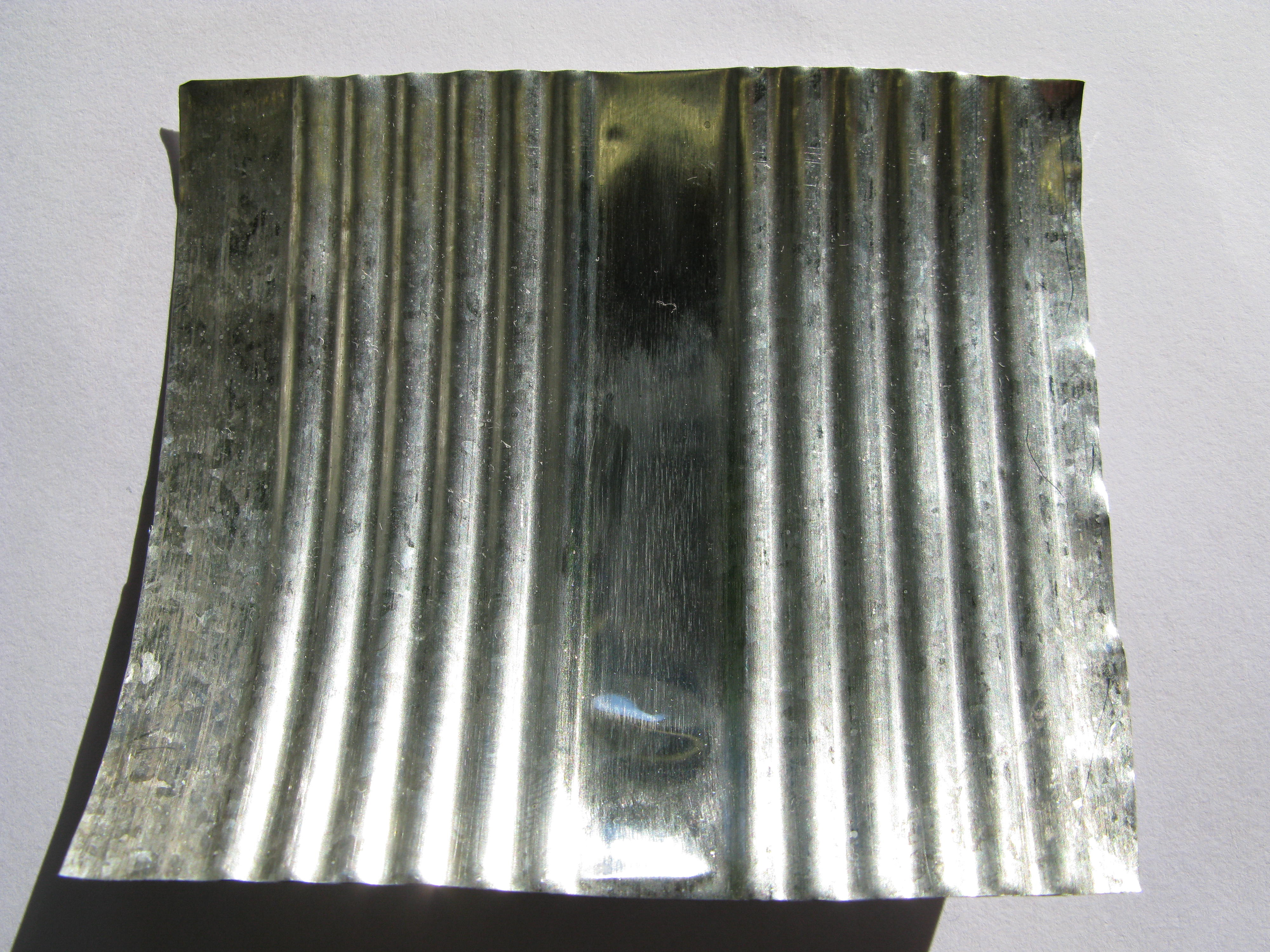 The inside of a "tin can" made from steel plated with tin.